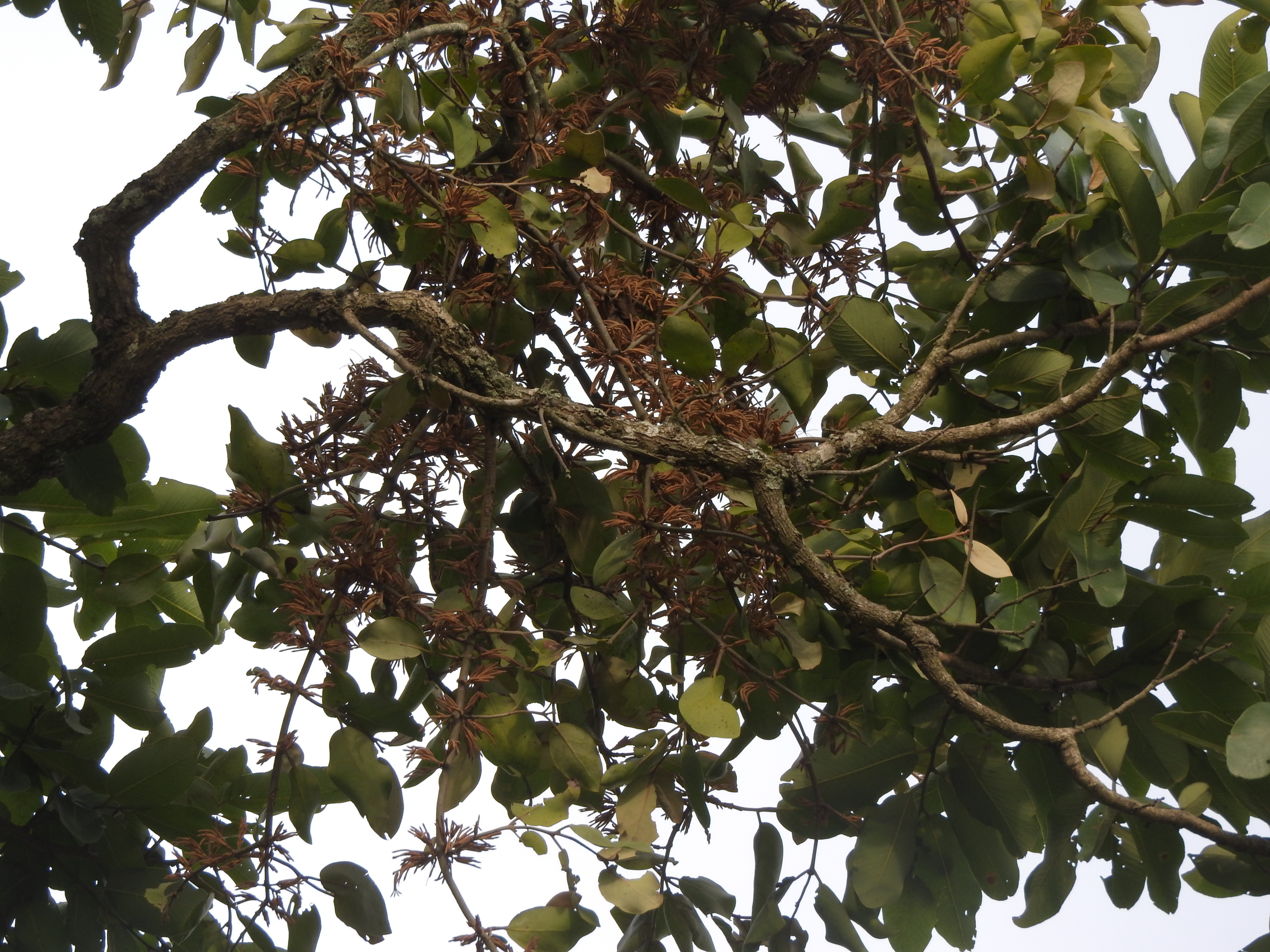 Loranthaceae-parasitic plant,flowers orange yellow.